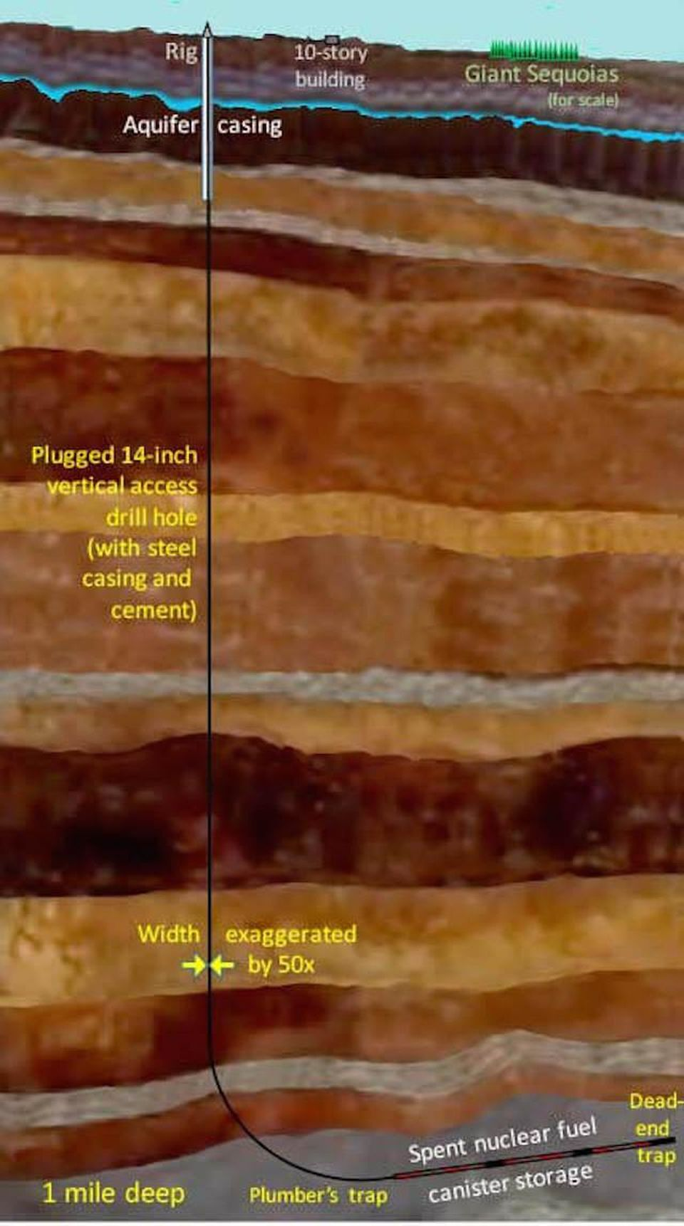 illustration of deep horizontal drillhole dispoal